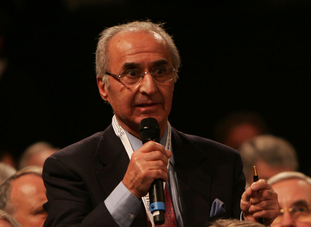 47th Munich Security Conference 2011: Hikmet Cetin, Ambassador, Minister of Foreign Affairs,Republic of Turkey.